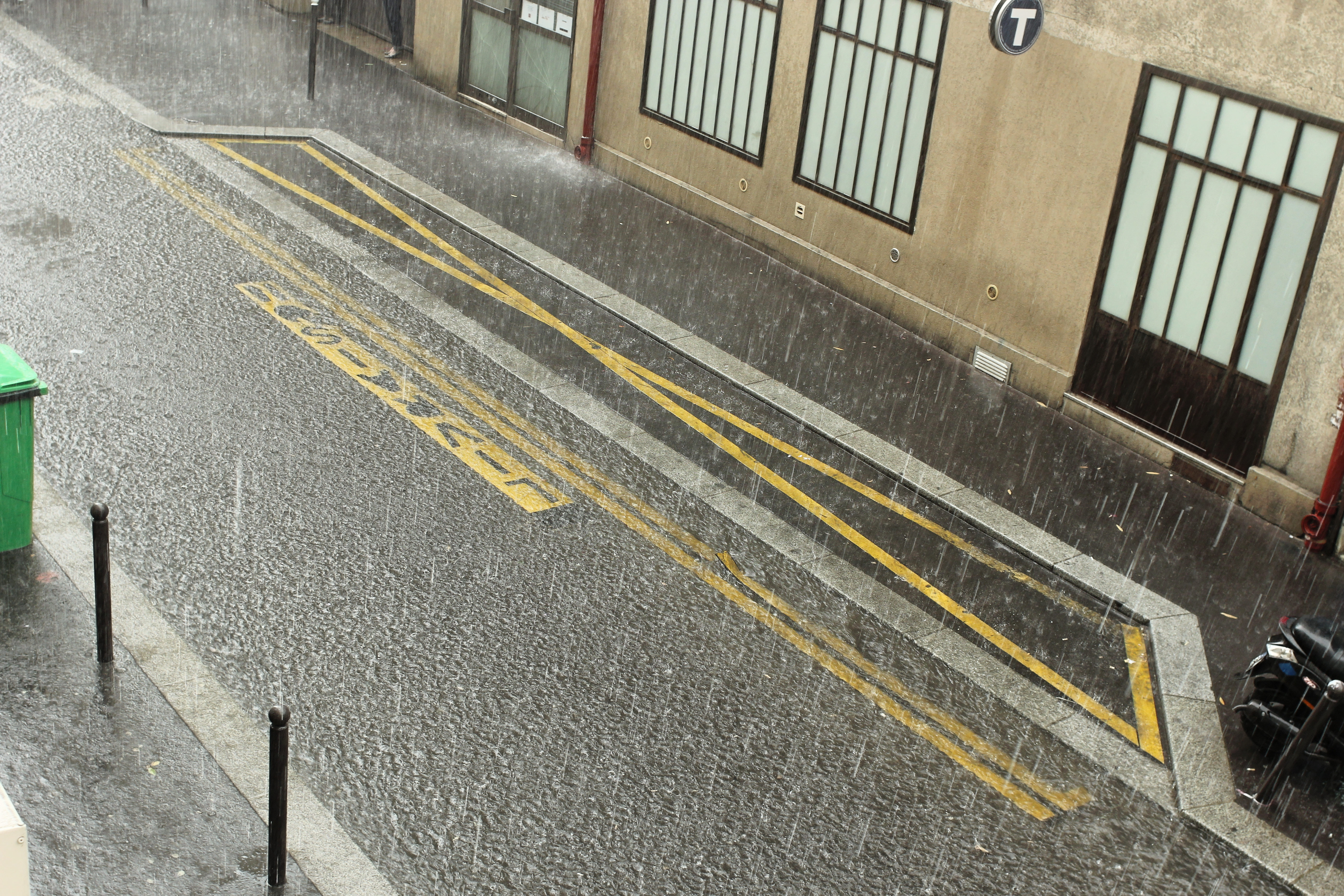 Downpour in Paris: rain on a parking space marked for deliveries.